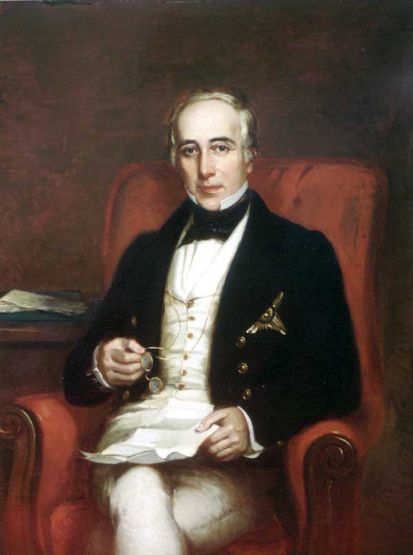 Major-General Sir George Arthur, Bart., KCB [Lieutenant Governor of Upper Canada, 1838-41]